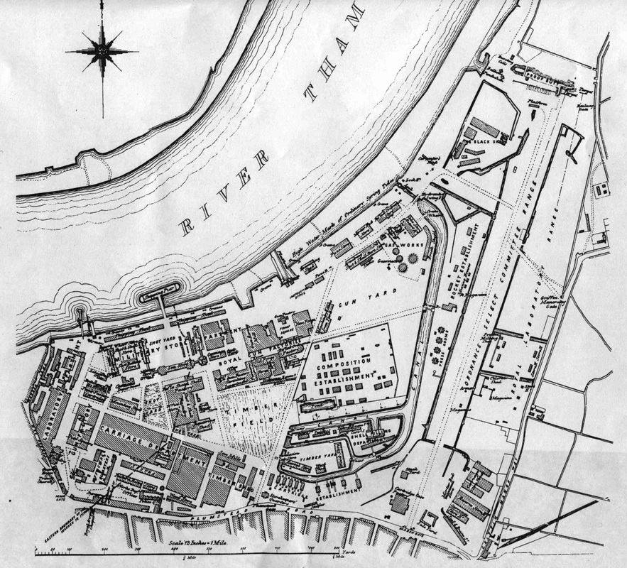 1877 map of Royal Arsenal, Woolwich, South East London.